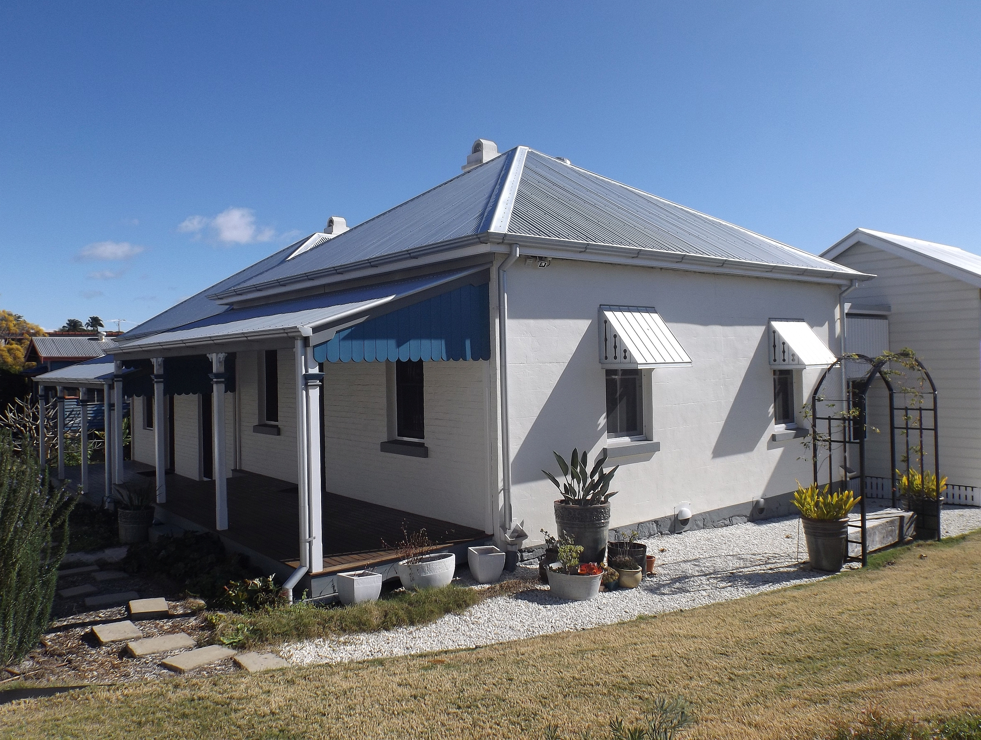 Photo of Bess Street Brick Cottages at Windsor, Brisbane, Queensland, Australia. The closest cottage is number 27, the second is number 25.